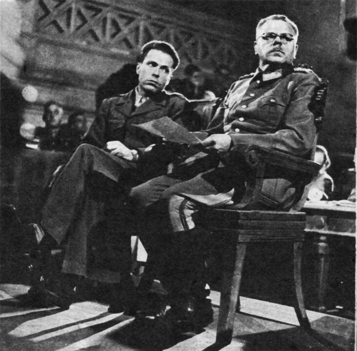 Anton Dostler on trial in 1945 — at the Palace of Caserta in Italy. His interpreter is Albert O. Hirschmann.